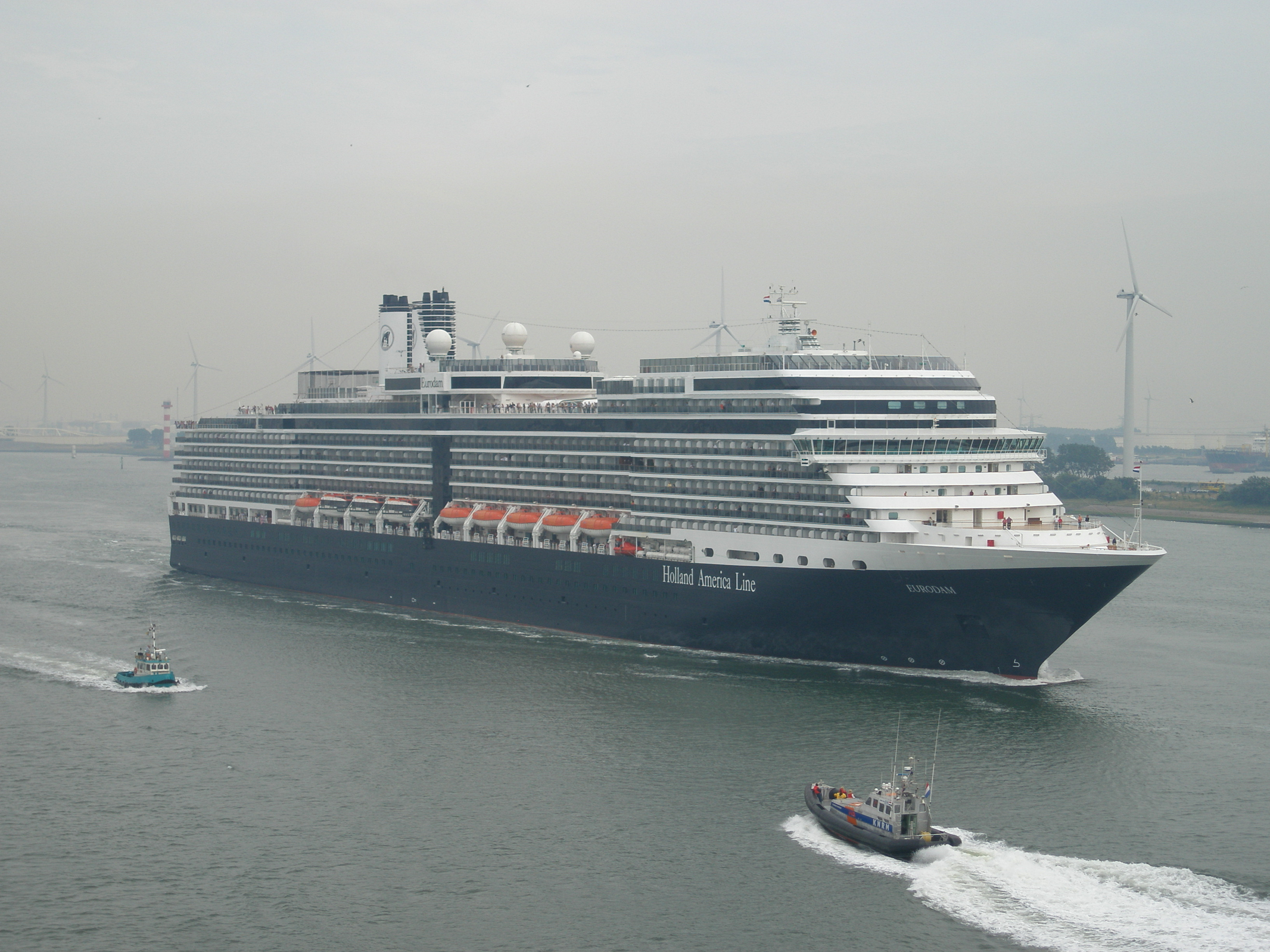 The cruise liner Eurodam passing Hoek van Holland outward bound from Rotterdam on the evening of 2nd July 2008.